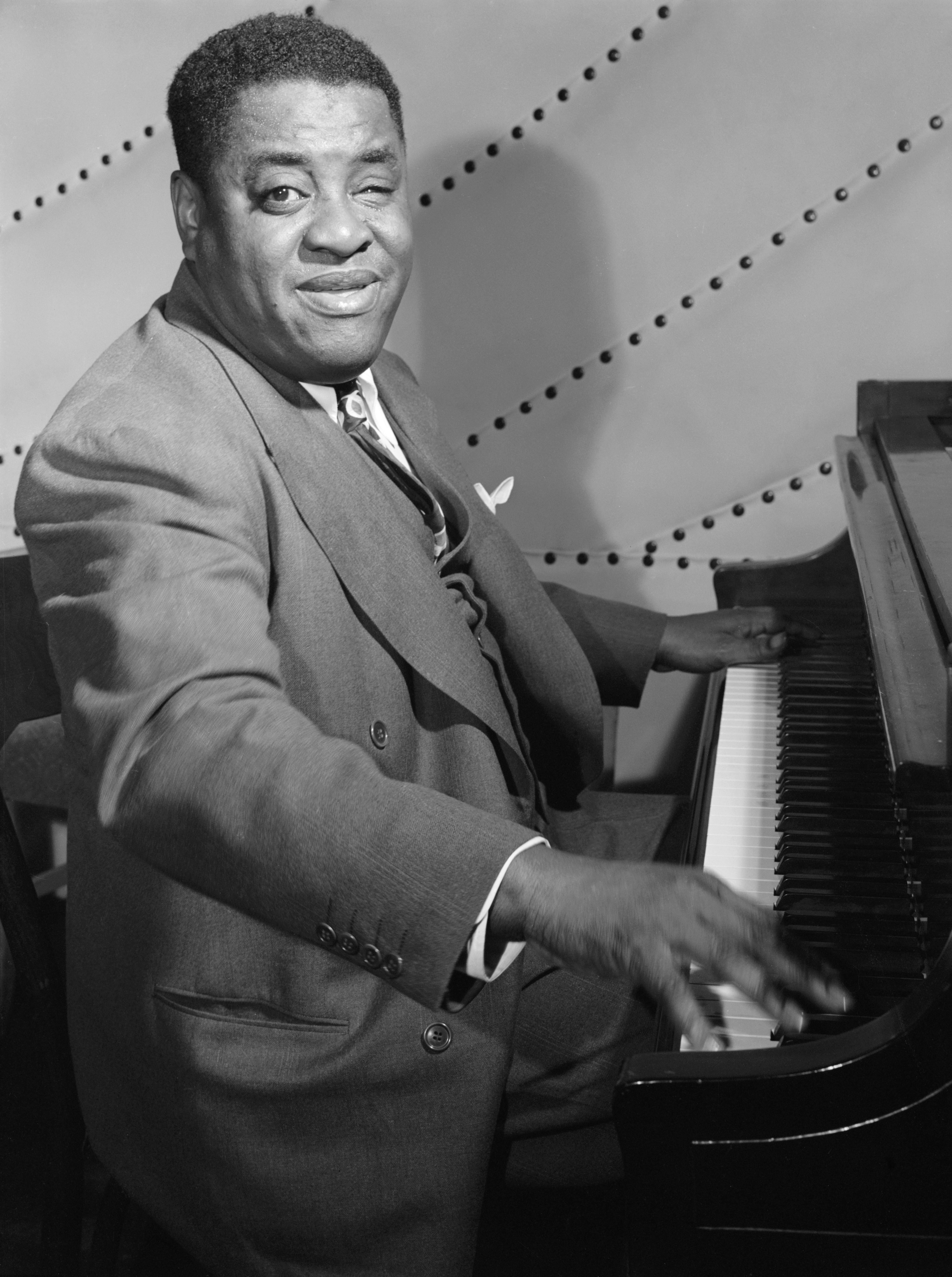 Portrait of Art Tatum, Vogue Room, New York, N.Y., between 1946 and 1948. Photography by William P. Gottlieb